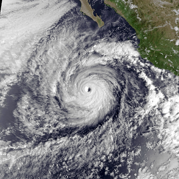 Hurricane Trudy on October 20, 1990. At the time Trudy had winds of 135.7 knts (156.1 mph, 251.4 kph), 1-min sustained and a pressure of 924 mbar. Trudy was about 485 miles away from land. This image was taken by the NOAA-10 Satellite.